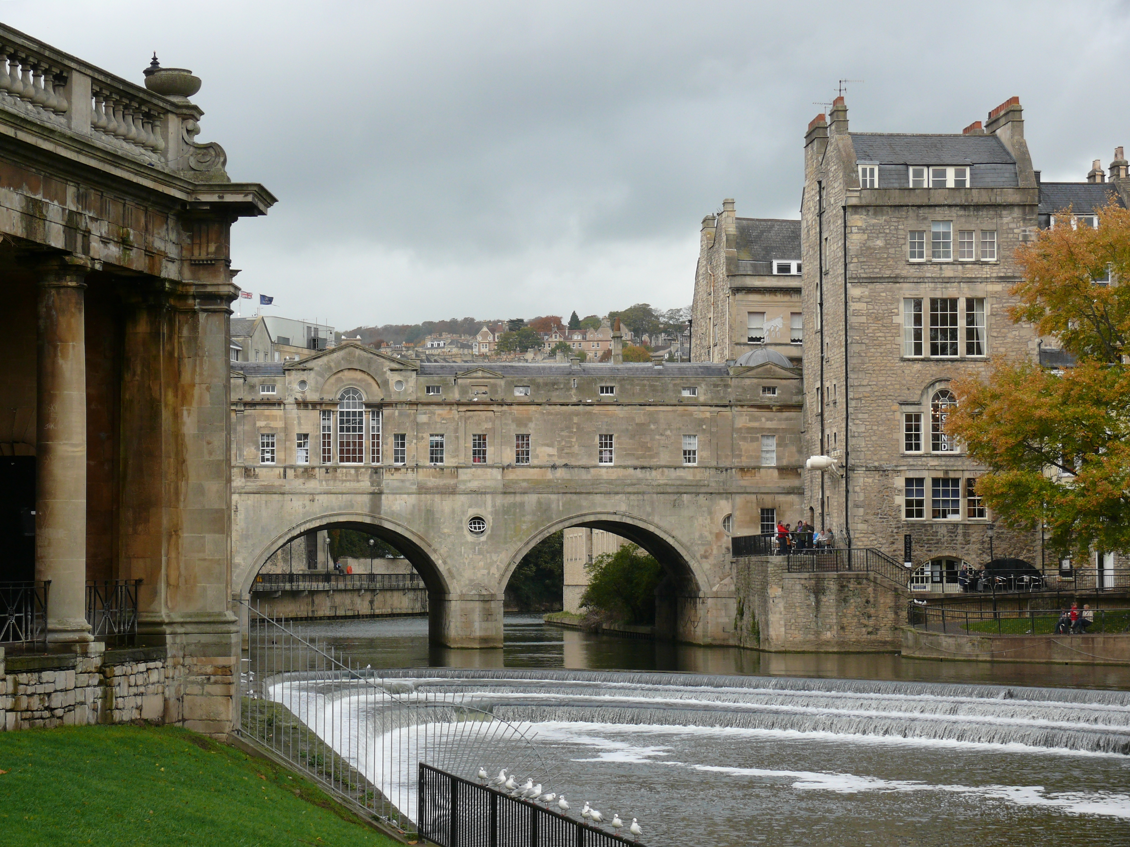 Pulteney Bridge in Bath, England, UK.